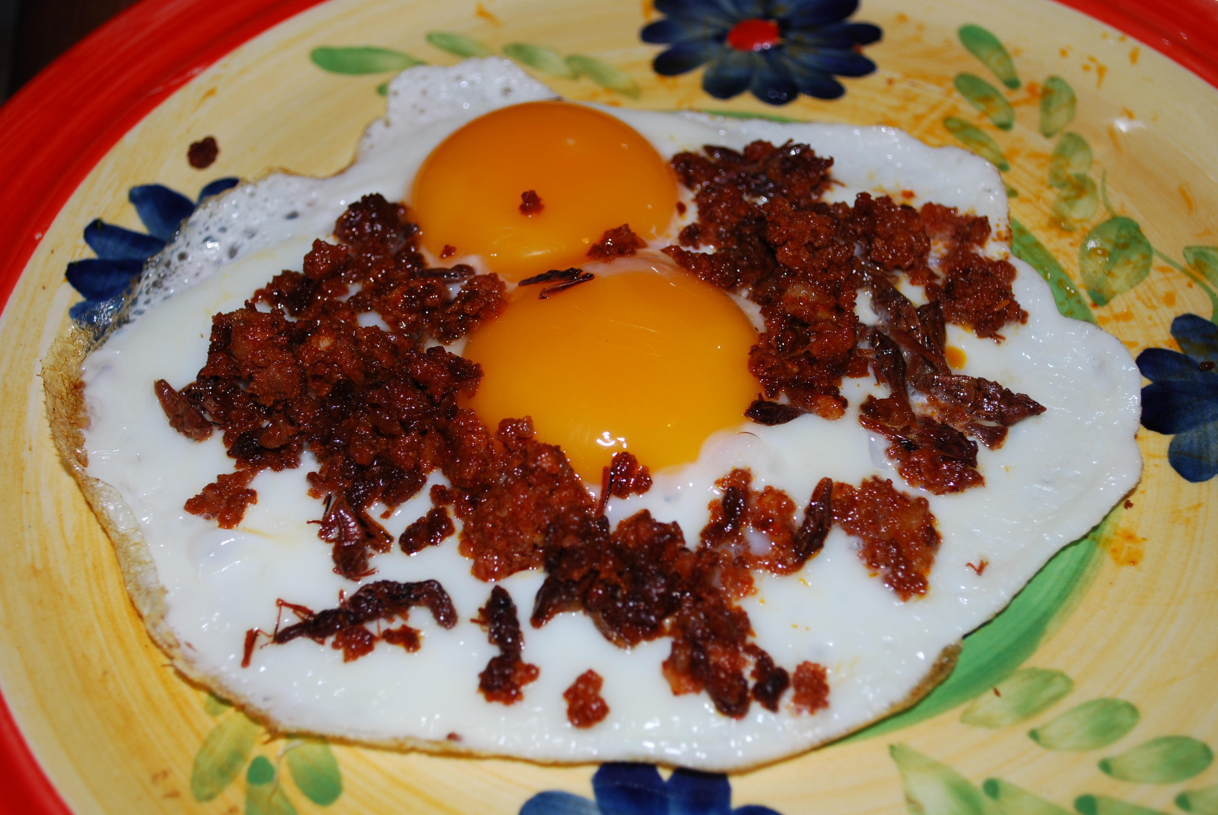 Fried egg with Oaxaca chorizo sausage and chapulines